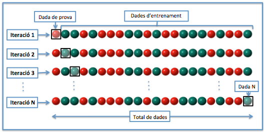 leave-one-out cross validation